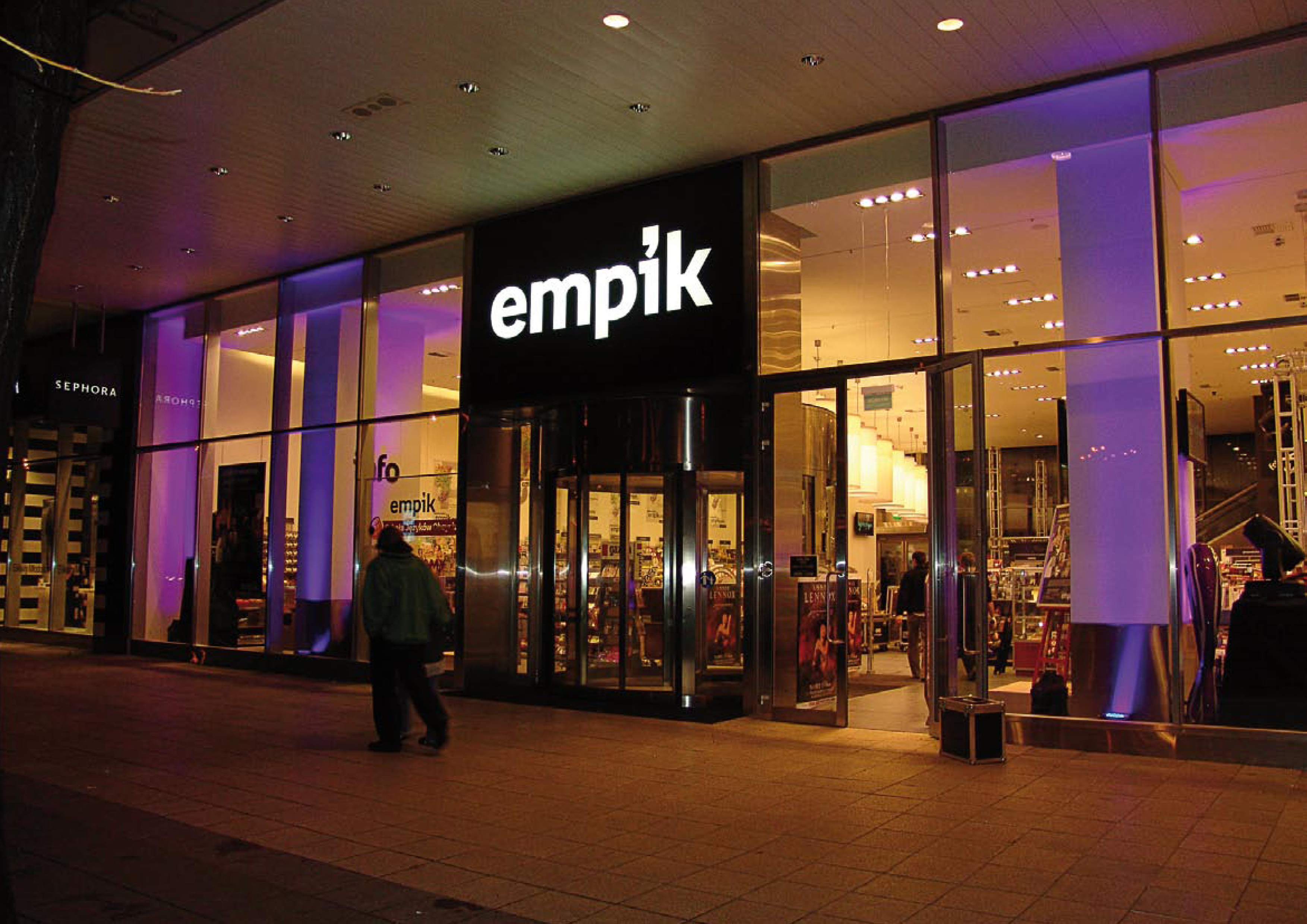 Fasada salonu empik przy ulicy Marszałkowskiej